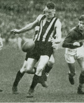 Photo of Marcus Boyall from 1935-1945